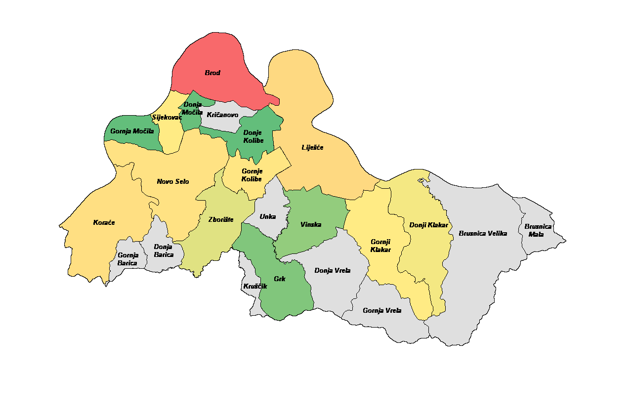 Brod